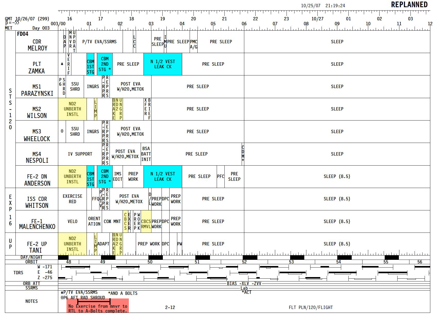 Screenshot from page 5 (pdf pagination) of the source, highlighted to show the actions for the RMS and CBM operators. Page 4 indicates that the Powered Bolt commands were issued by the Operations Support Officer (OSO) on the ground in the gap between 2nd stage capture and pressurization of the vestibule.